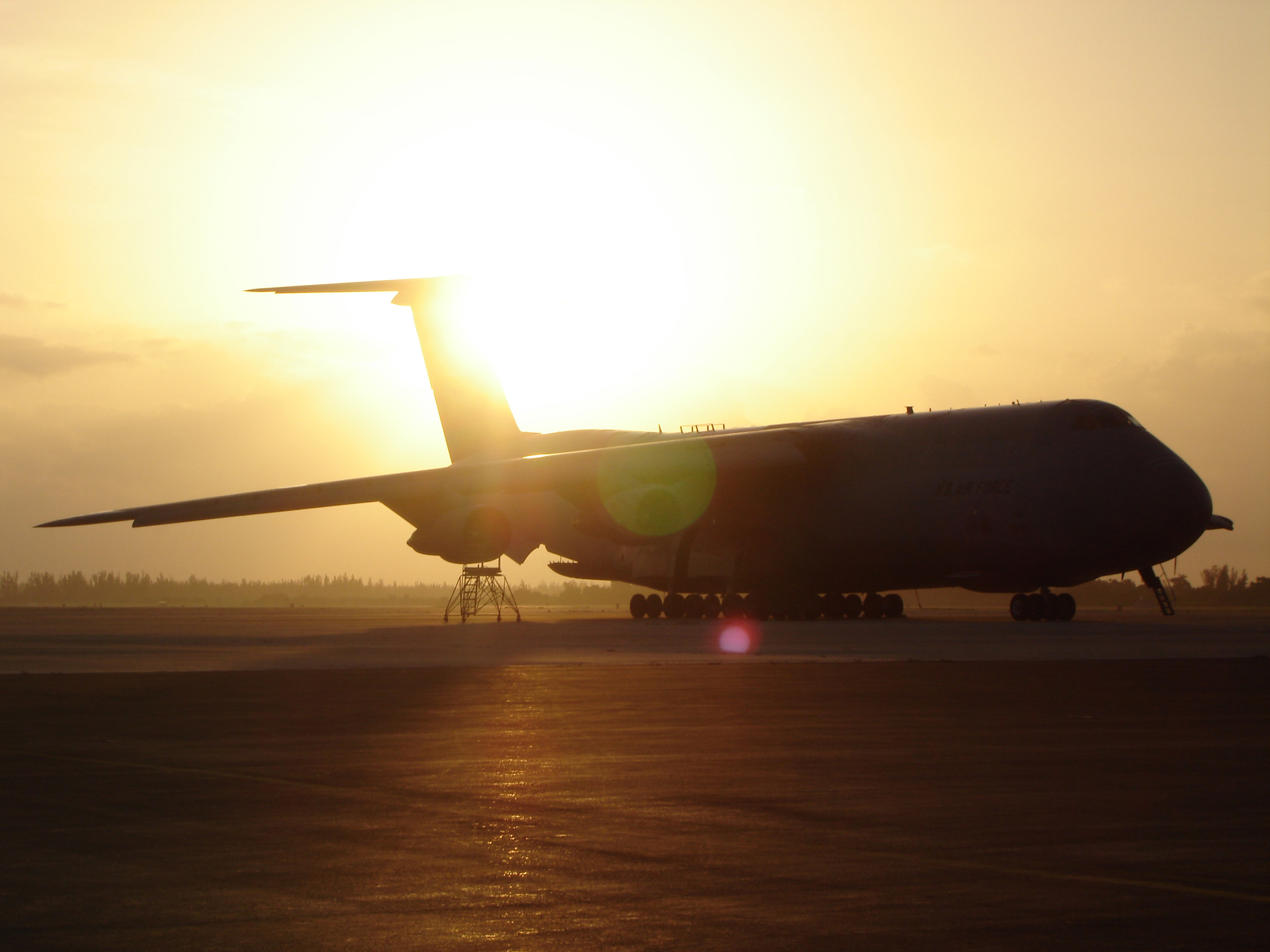 A C-5A Galaxy from the 68th Airlift Squadron in San Antonio waits for its passengers at Homestead Air Reserve Base, Fla., in 2006. The C-5 crew flew reservists and equipment from the 482nd Fighter Wing in support of exercise Cactus Aloha at Hickam AFB, Hawaii.